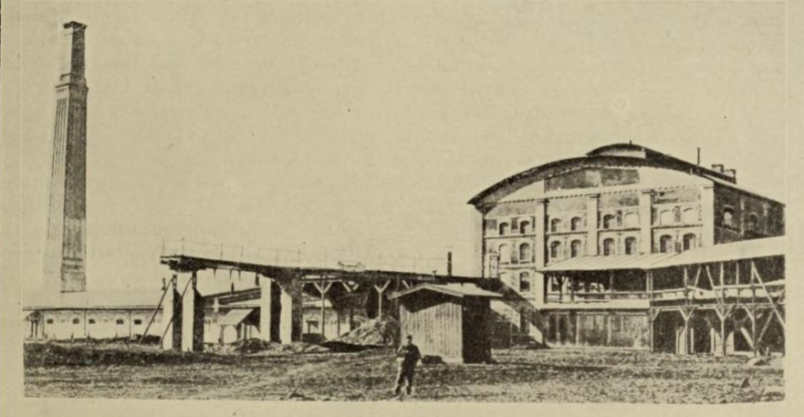 Sugar factory in Selyp